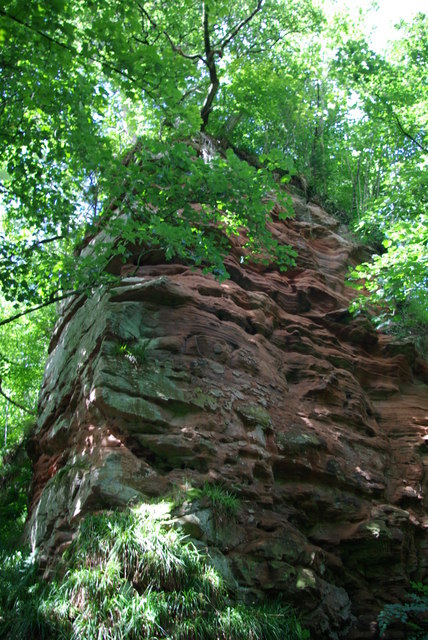 Red sandstone cliff (Auchinleck Castle) Perched precariously on the cliff top are the fragmentary remains of Auchinleck Castle, dating from around the 14th century and seat of the Auchinlecks of that Ilk. With it's cliff top location and being sited between the Lugar Water & Dippol Burn, the castle's natural defences are highly impressive.